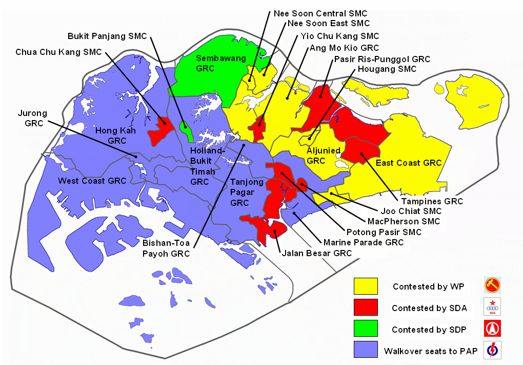 Created by Vsion References: Elections Department Singapore, URL accessed 3 March 2006. This map is for illustration only, please consult Elections Department Singapore for official information. The Singapore map and division boundaries may contain errors. Please report any error to user:Vsion in .